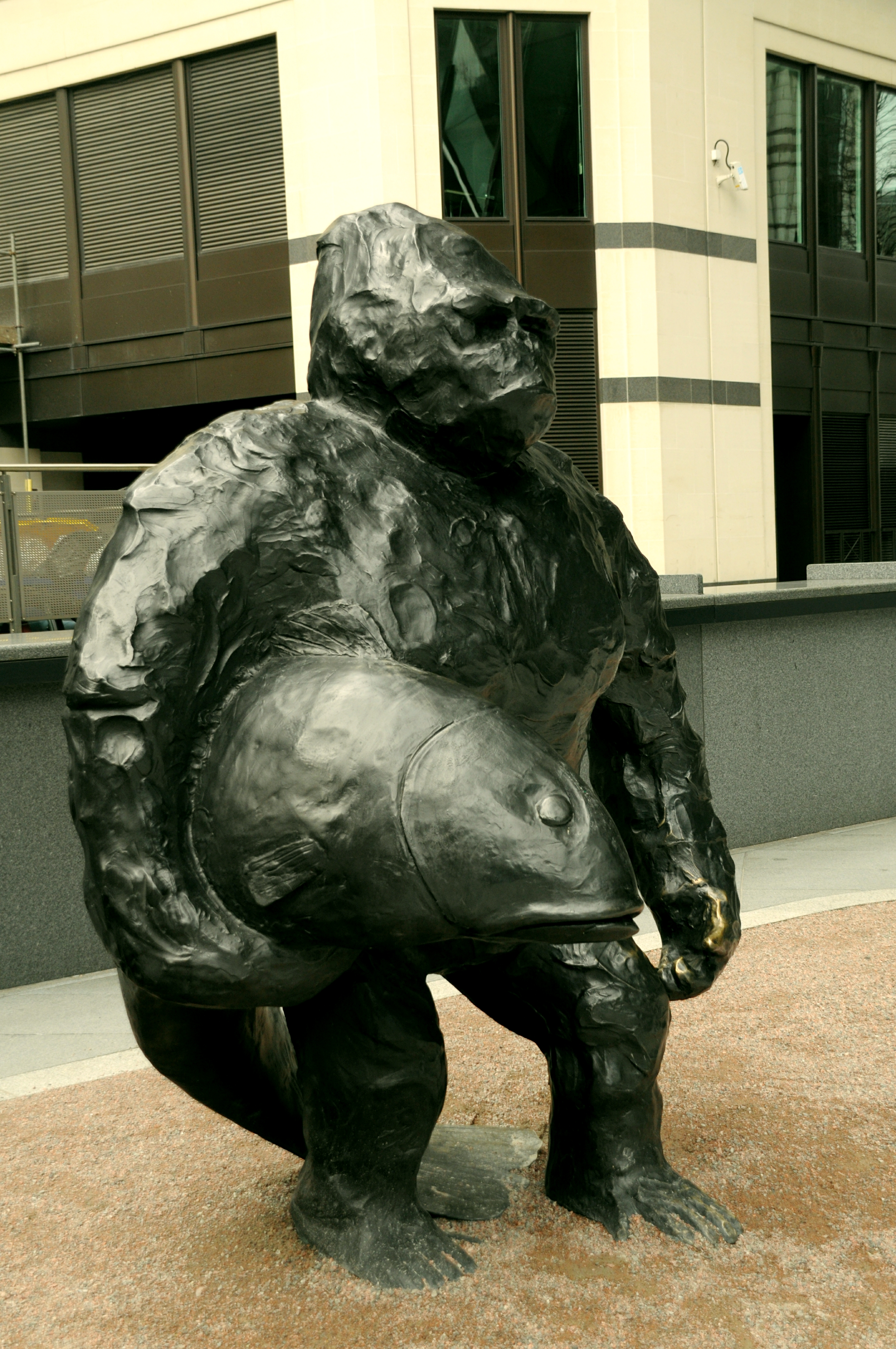 "A Couple of Differences Between Thinking And Feeling" temporary sculpture by Angus Fairhurst, St.Mary Axe, London